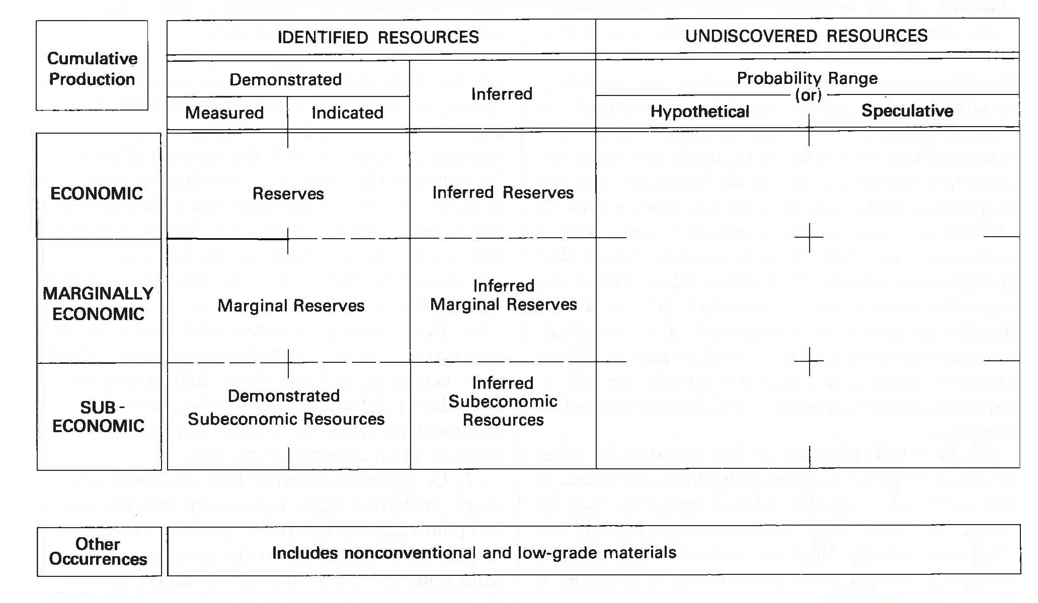 A "McKelvey diagram", a graphical representation of mineral resource classification with respect to economics and geologic certainty